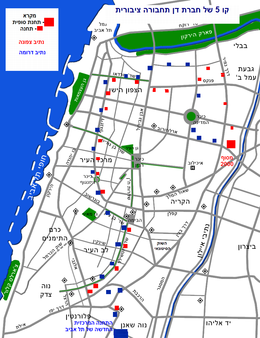 Map of Tel Aviv - Dan bus line no. 5